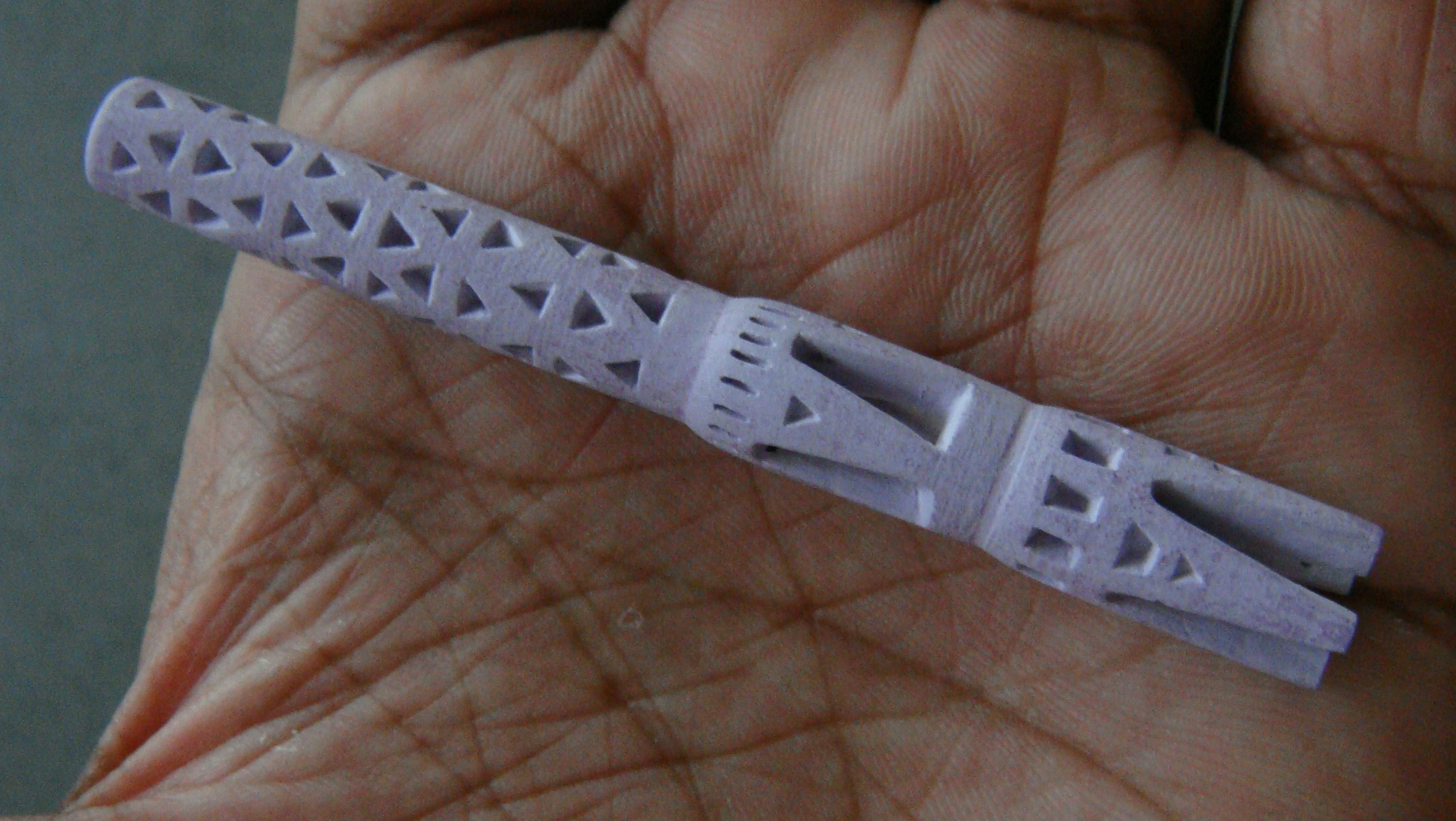 A single piece chalk carving by Bijay Boghani